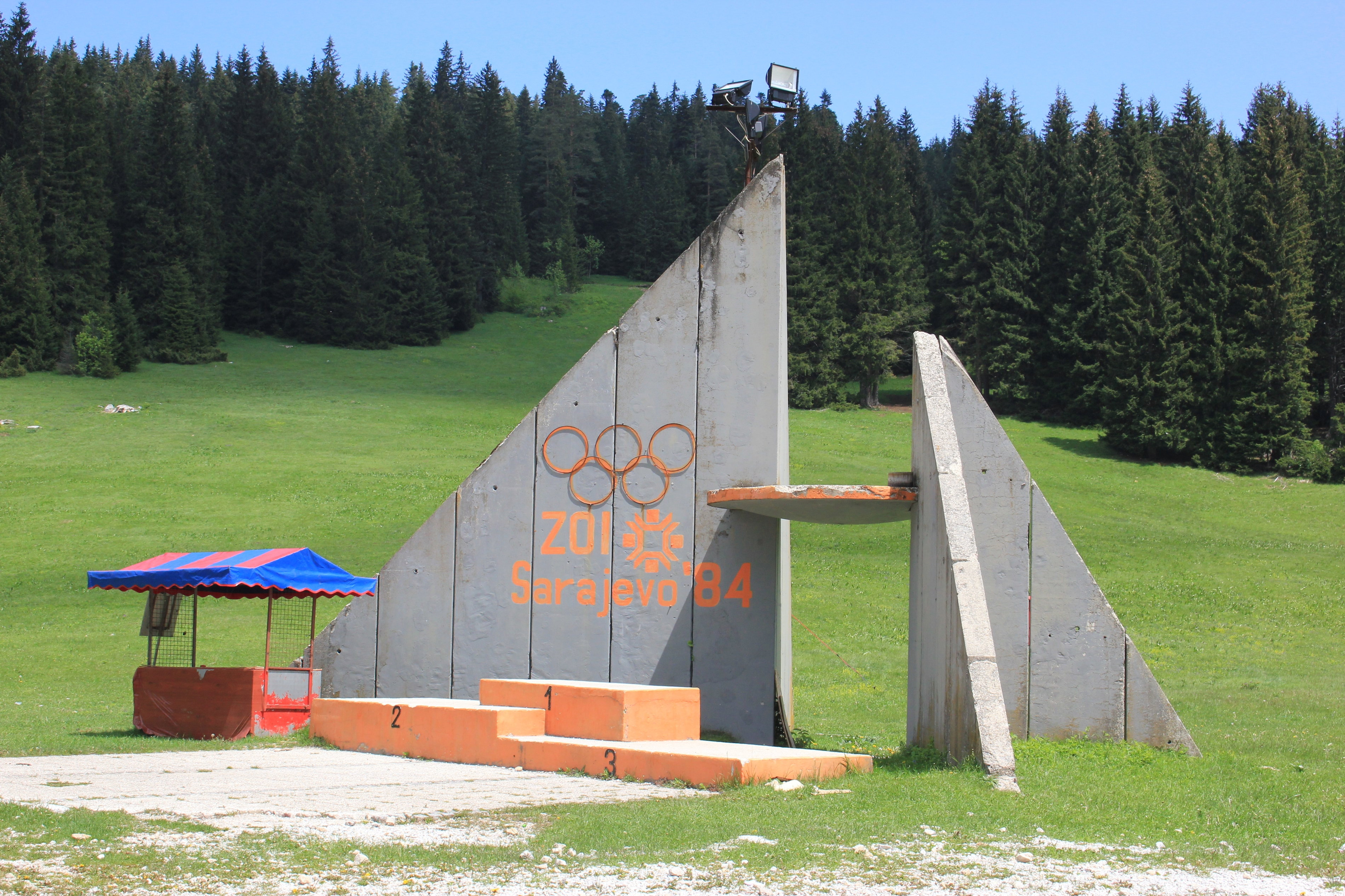 Igman Olympic Jumps near Sarajevo.